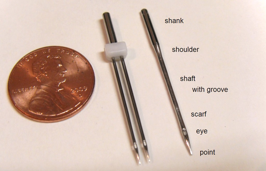 The parts of a sewing machine needle